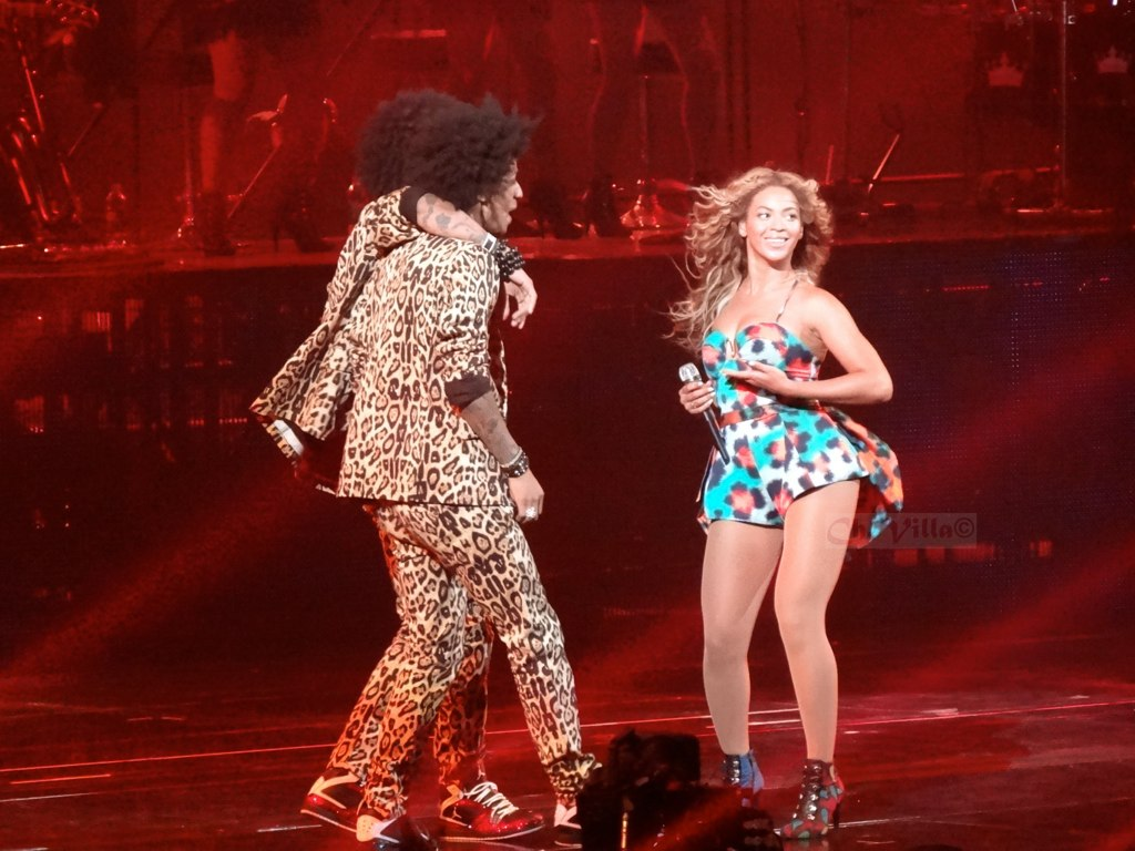 Beyonce performing in Montreal in 2013 during The Mrs. Carter Show World Tour.